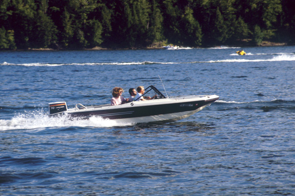 Boat on Beltzville Lake in Beltzville State Park in Carbon County, Pennsylvania, United States